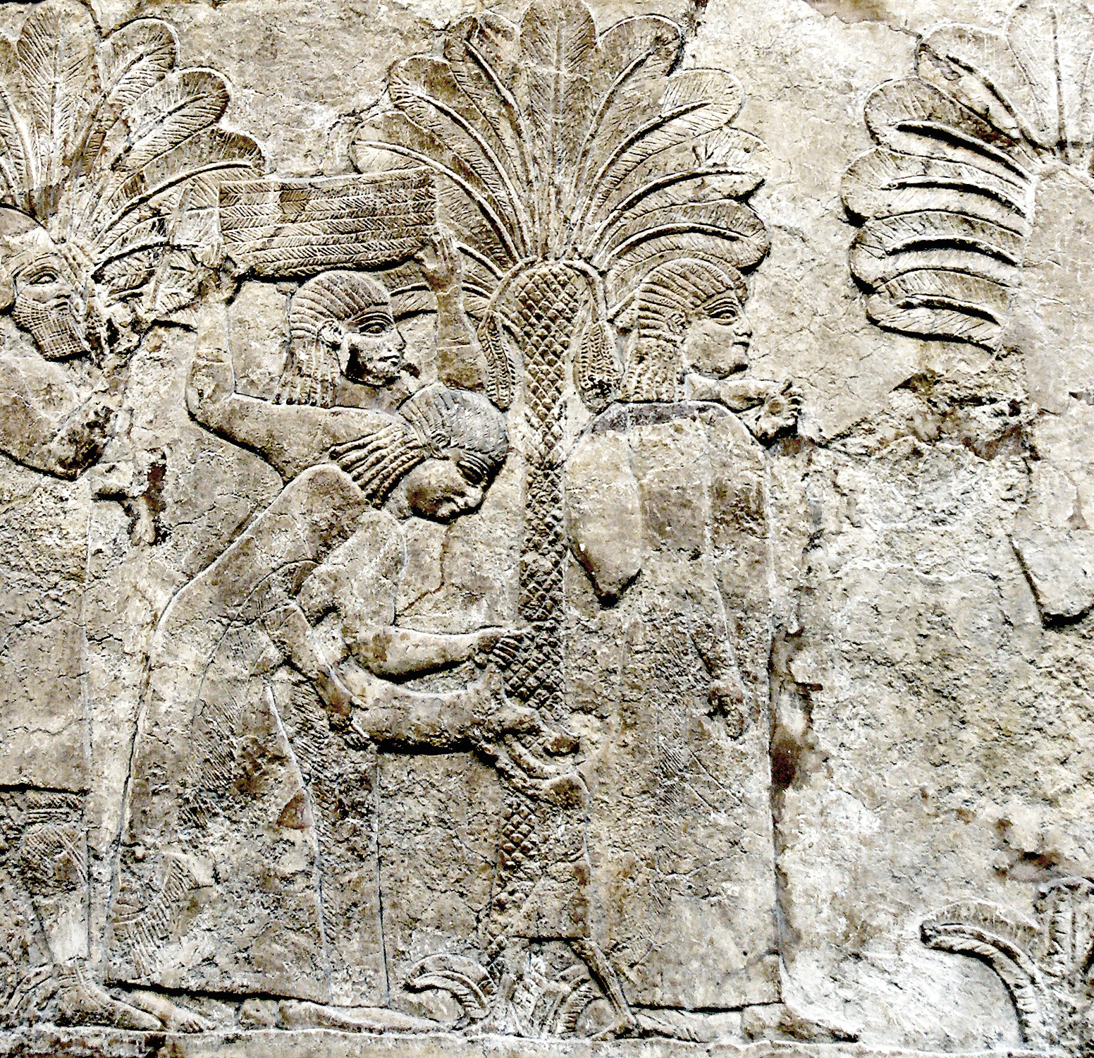 Detail of: prisoners being marched through groves of date-palms to Assyrian headquarters. Stone, Assyria artwork, ca. 640-620 BC. From the South-West Palace in Nineveh, room XXVIII, panels 7-9.